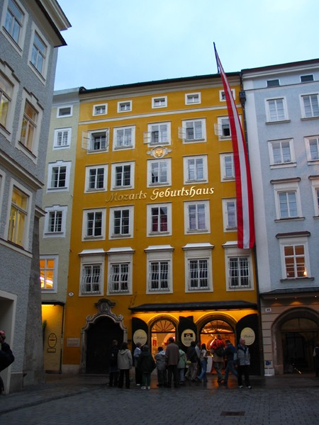 Austria, Salzburg, Getreidegasse